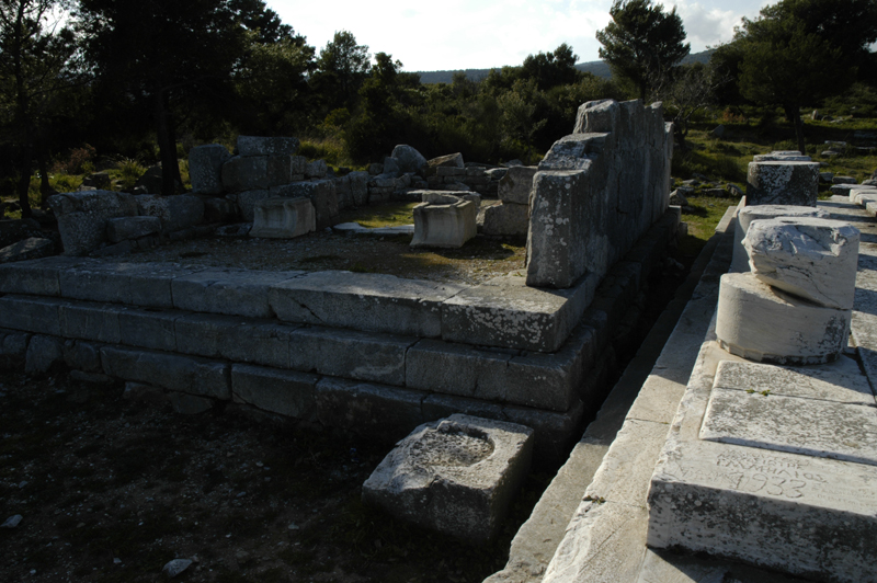 The small temple (L) and late 5th BC temple (R) looking west.J. M. Harrington, personal digital image